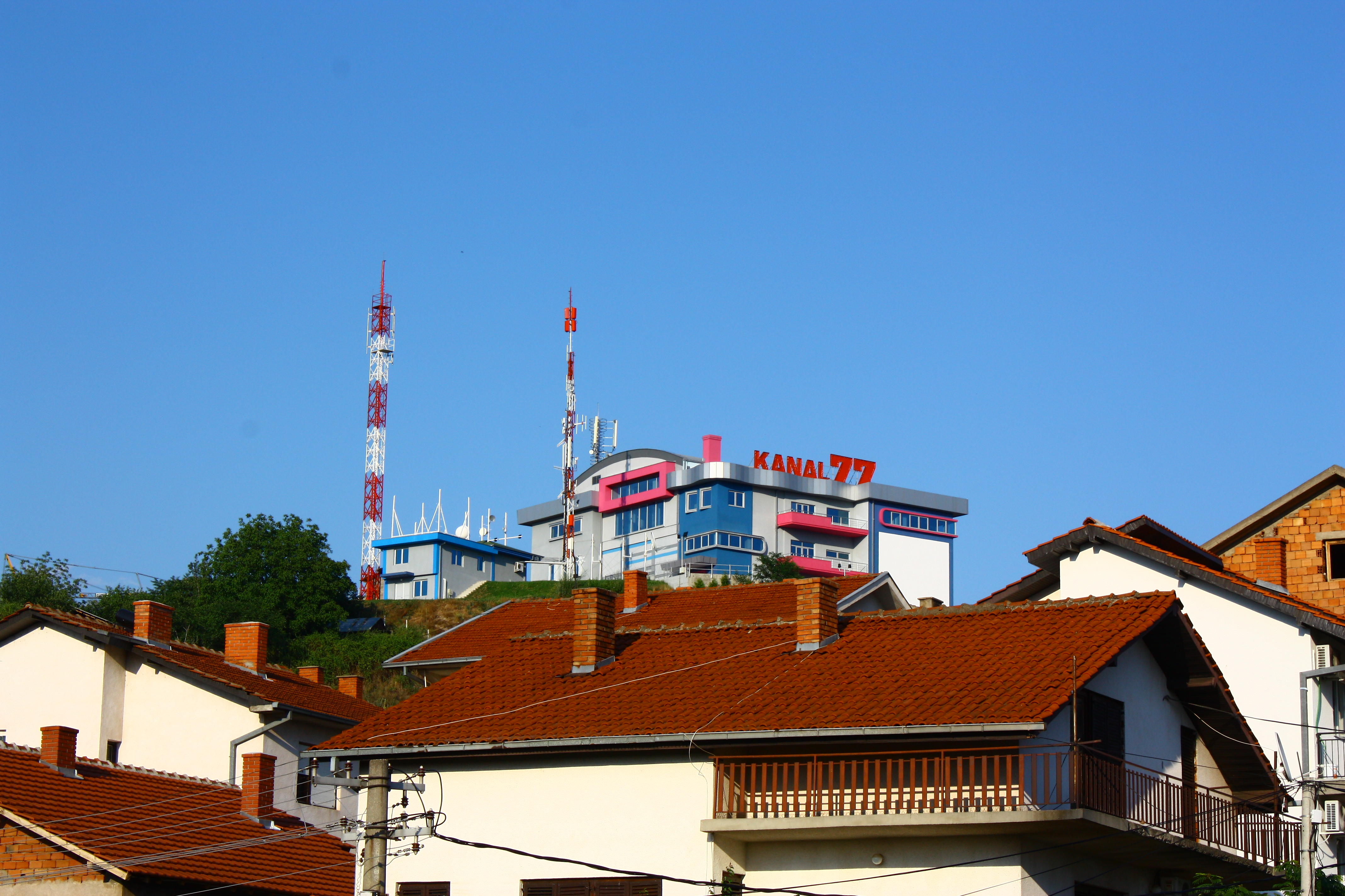 Štip, Macedonia